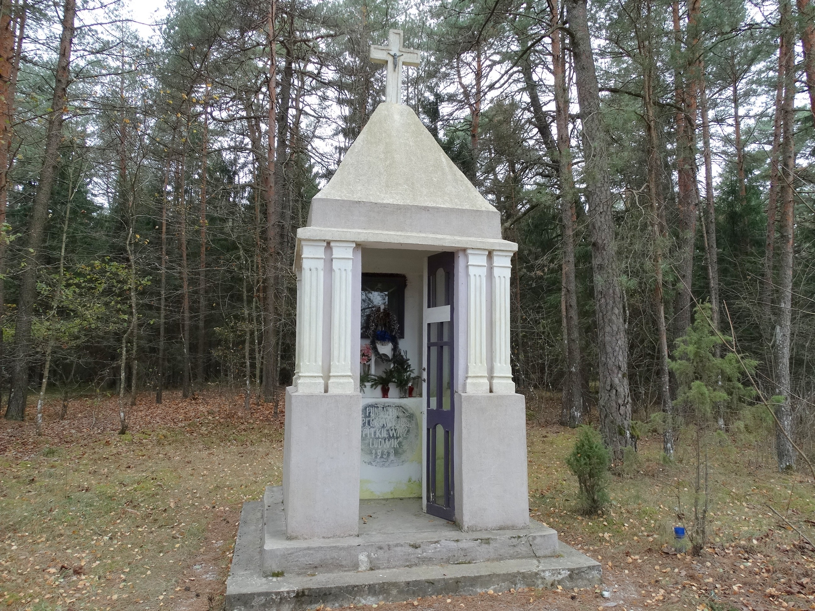 Chapel in Šešonys, Kaišiadorys district, Lithuania